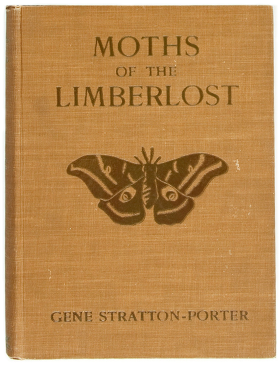 First edition front cover of Moths of the Limberlost by Gene Stratton-Porter